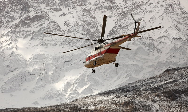 The second day of searching for the crash plane of the ATR 72